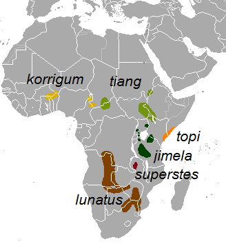 range map of the subspecies of Damaliscus lunatus